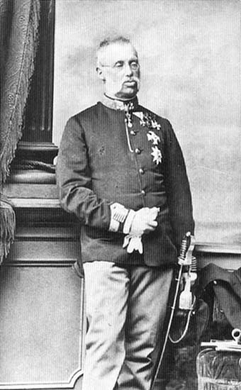 Archduke Albrecht, Duke of Teschen (1817-1895), Field marshal, son of Archduke Karl of Austria (the victor of Aspern 1809.)